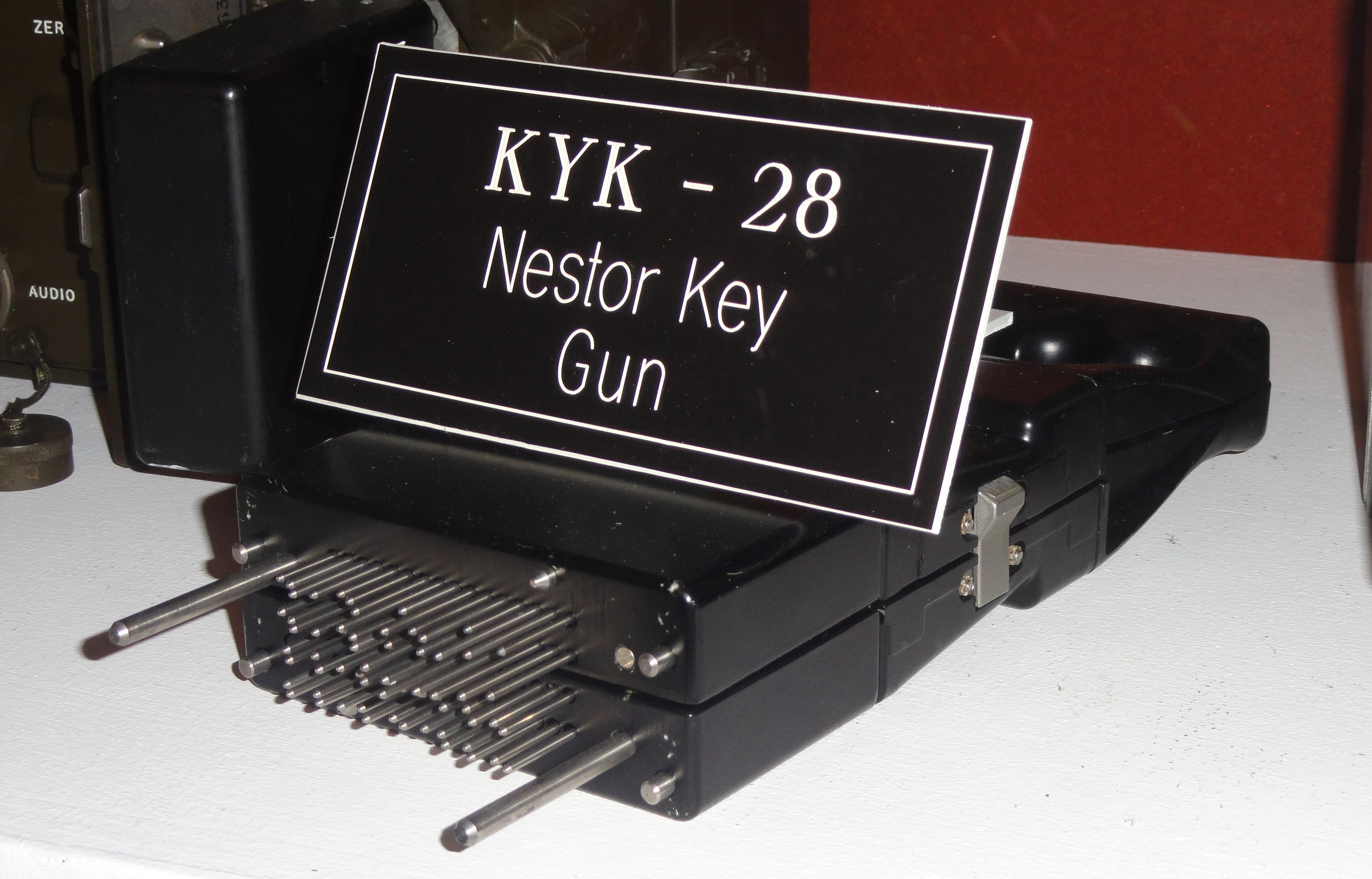 Exhibit in the National Cryptologic Museum, Fort Meade, Maryland, USA. All items in this museum are unclassified; items created by the United States Government are not subject to copyright restrictions.